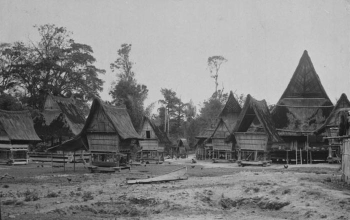 Village view, Peceren